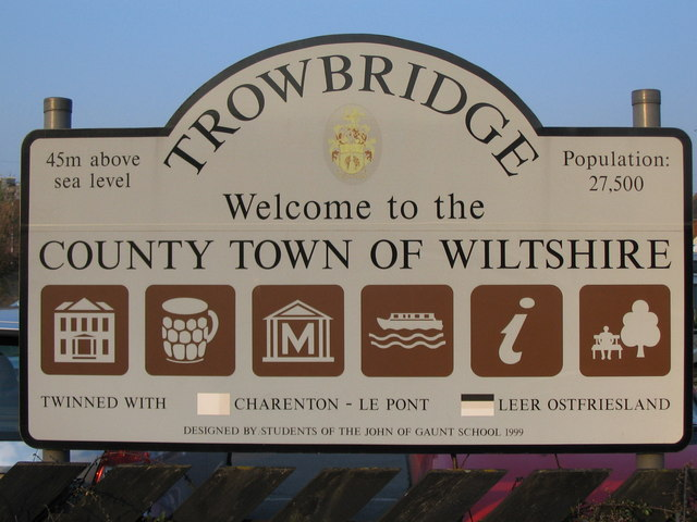 Welcome to Trowbridge A view of the welcome sign at Trowbridge railway station.